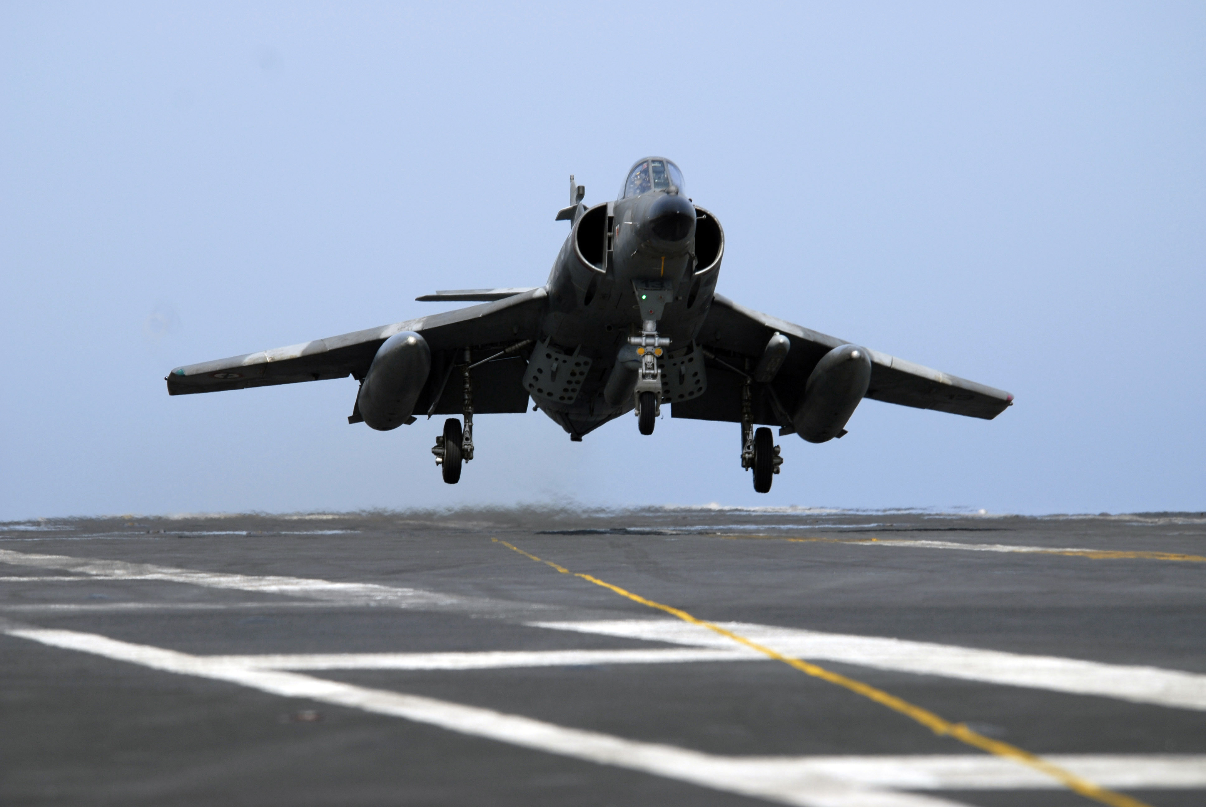 A French Super-Etendard aircraft from the nuclear-powered aircraft carrier French navy ship Charles de Gaulle (R 91) performs a touch-and-go on the flight deck of the Nimitz-class aircraft carrier USS John C. Stennis (CVN 74) April 12, 2007. Stennis, as part of the John C. Stennis Carrier Strike Group, and Charles de Gaulle, the flagship of Commander, Task Force 473, are in the North Arabian Sea conducting bilateral exercises and supporting multi-national ground forces in Afghanistan. (U.S. Navy photo by Mass Communication Specialist 1st Class Denny Cantrell) (Released) (Released to Public)